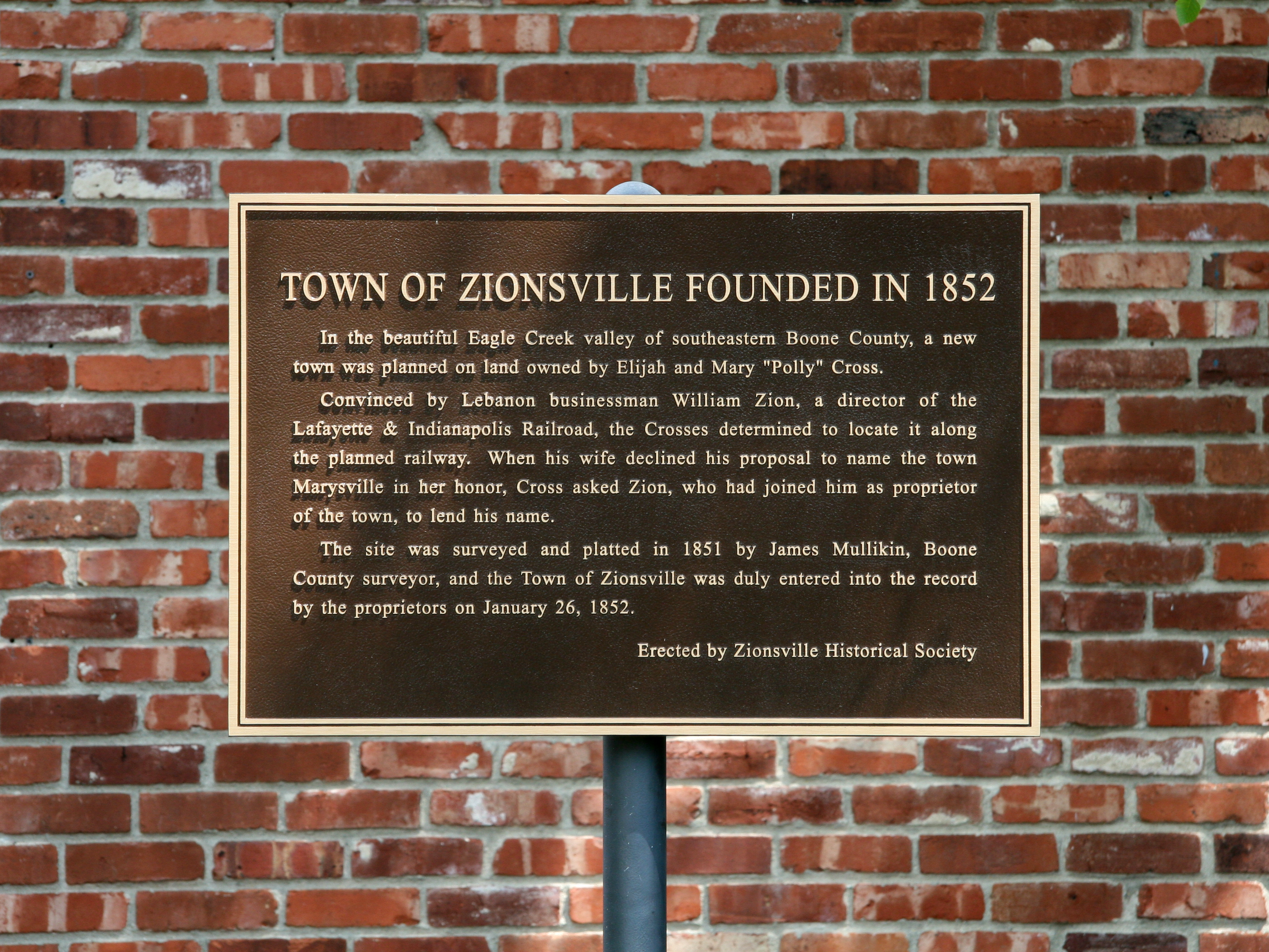 A historical marker along Main Street in Zionsville, Indiana. It reads: Town of Zionsville founded in 1852 In the beautiful Eagle Creek valley of southeastern Boone County, a new town was planned on land owned by Elijah and Mary "Polly" Cross. Convinced by Lebanon businessman William Zion, a director of the Lafayette & Indianapolis Railroad, the Crosses determined to located it along the planned railway. When his wife declined his proposal to name the town Marysville in her honor, Cross asked Zion, who had joined him as proprietor of the town, to lend his name. The site was surveyed and platted in 1851 by James Mullikin, Boone County surveyor, and the Town of Zionsville was duly entered into the record by the proprietors on January 26, 1851. Erected by Zionsville Historical Society